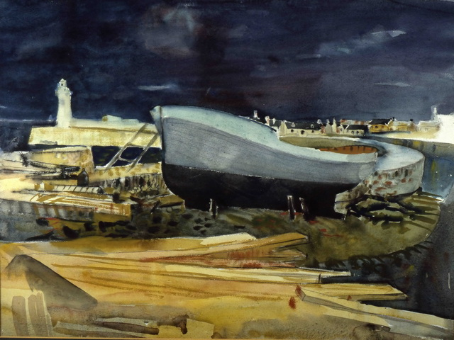 The Boat Yard (Macduff, Scotland). Boat under repair in middleground, with light coloured planks in foreground and in the distance houses of the town along the waterfront. Watercolour and pencil.